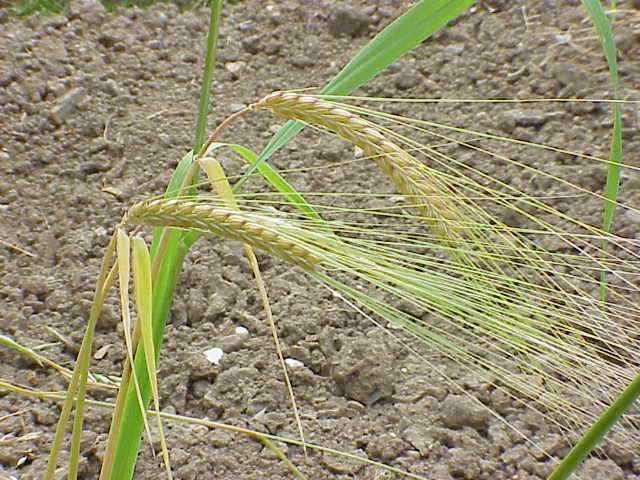 Species: Hordeum distichon Family: Poaceae Image No. 1